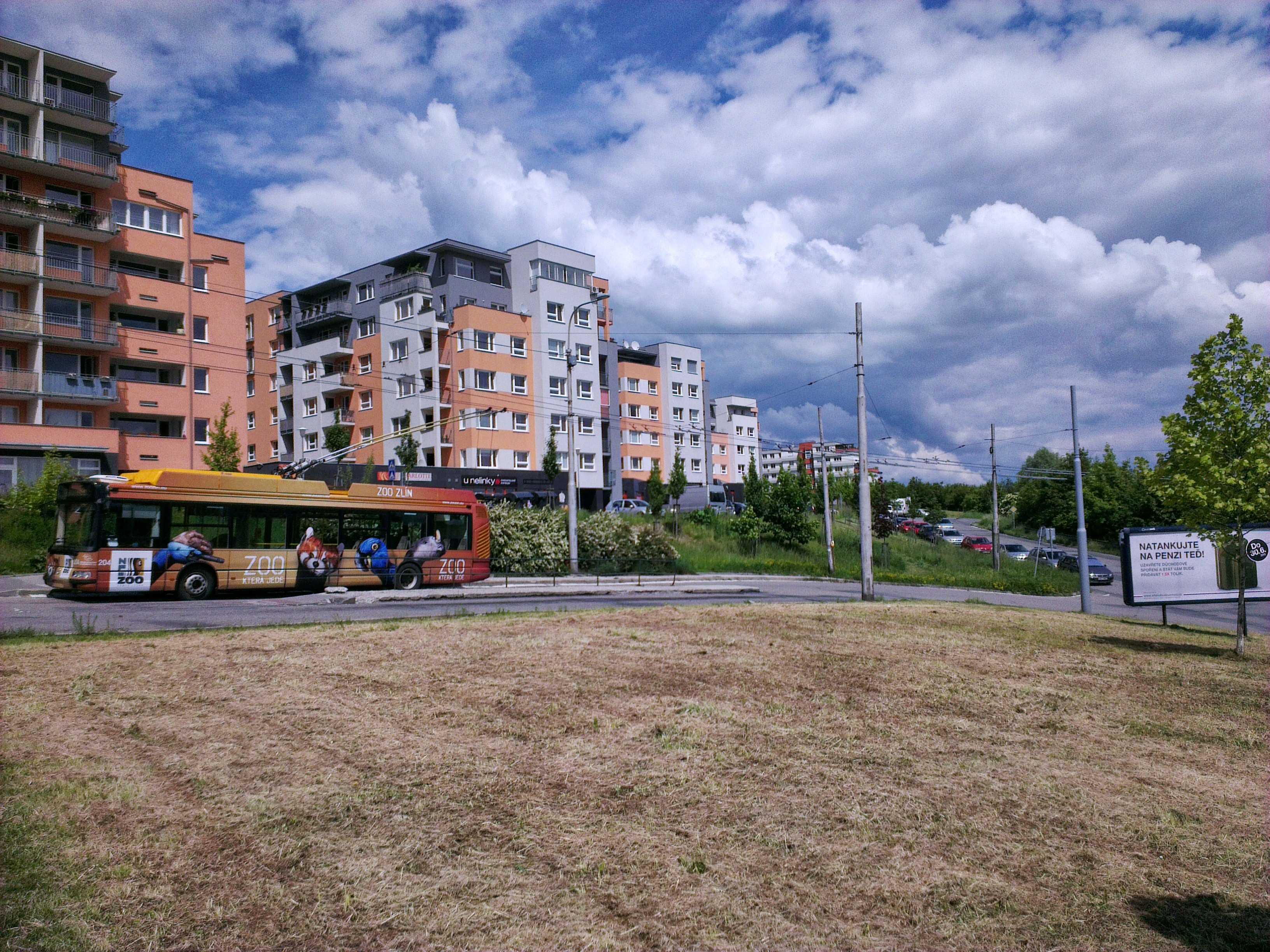 Final stop: Zlín, Jižní Svahy - Středová with a trolleybus waiting for the departure (type 24Tr, vehicle number 204, line 9). The photo was taken on 2th Jun 2013